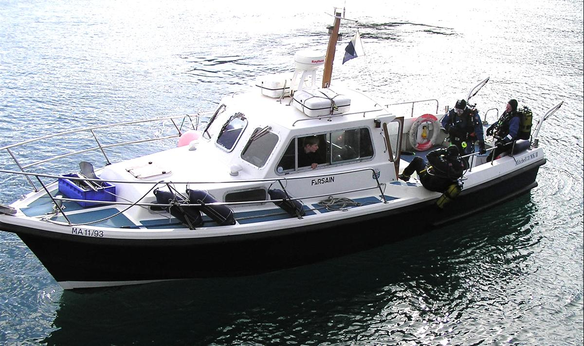 Cold Feet Divers, on the Farsain in the Garvellachs, Firth of Lorne, Argyll and Bute, Scotland